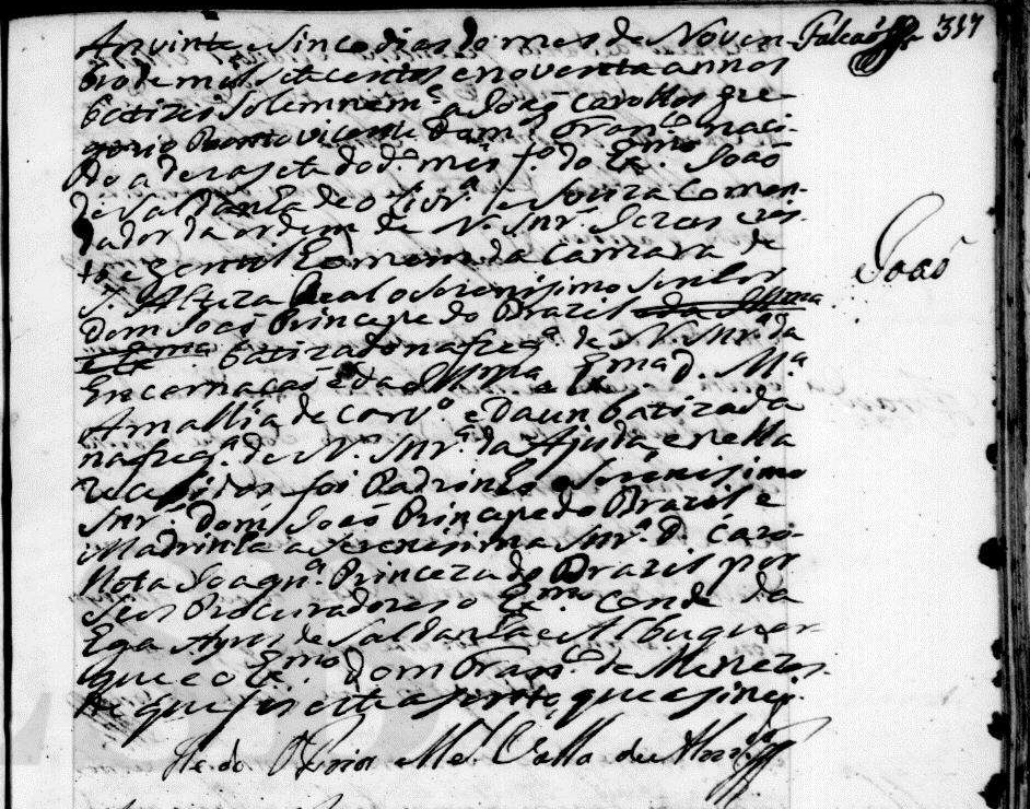 Baptism register (at the time, the equivalent of a birth record) of João Carlos Gregório Domingos Vicente Francisco de Saldanha Oliveira e Daun, Duke of Saldanha (1790-1876), dated 25 November 1790. São José Parish, Lisbon.